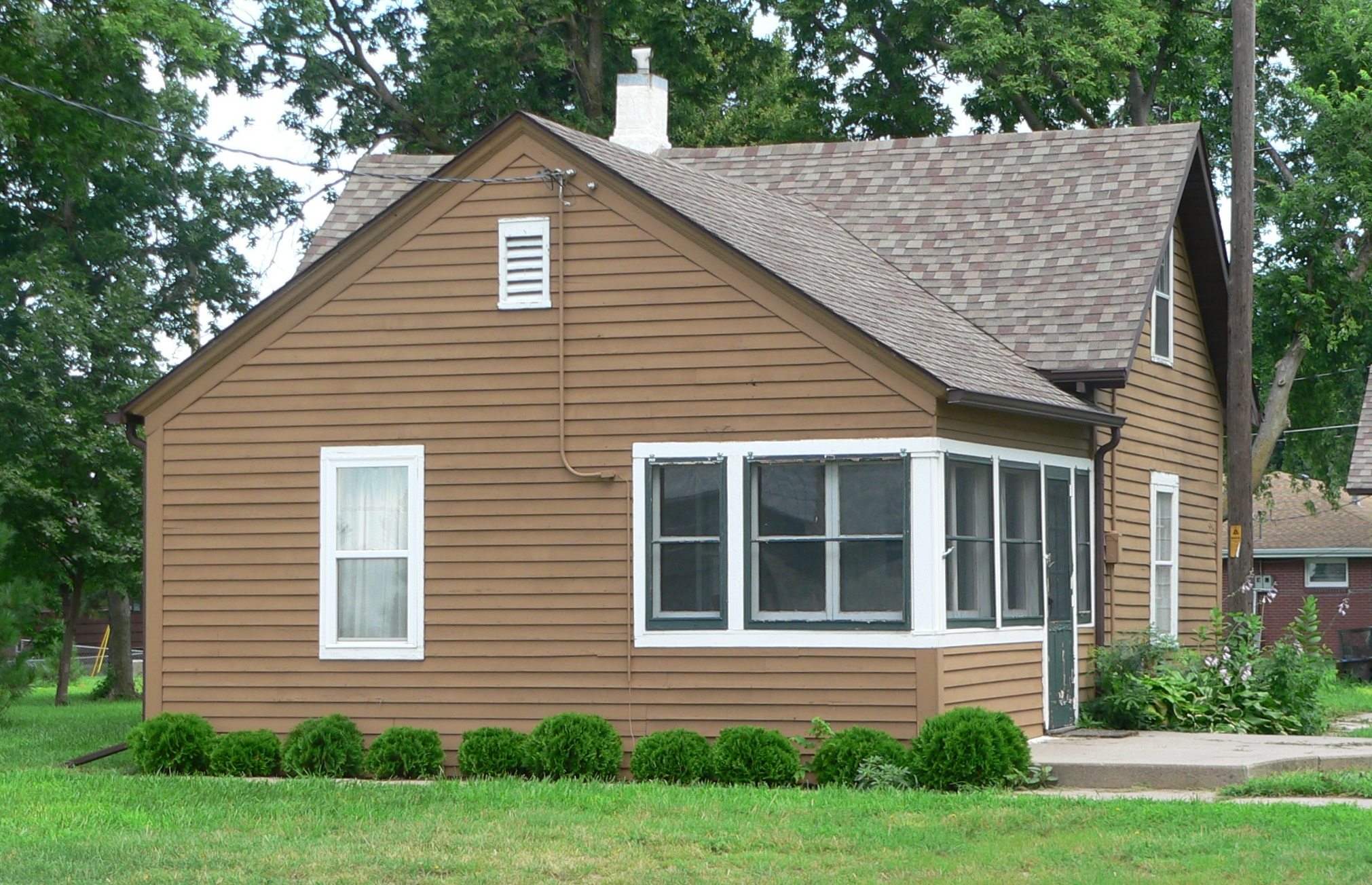 Heinrich Giese house, located at 2226 S. Blaine in Grand Island, Nebraska; seen from the southeast. The house is listed in the National Register of Historic Places.